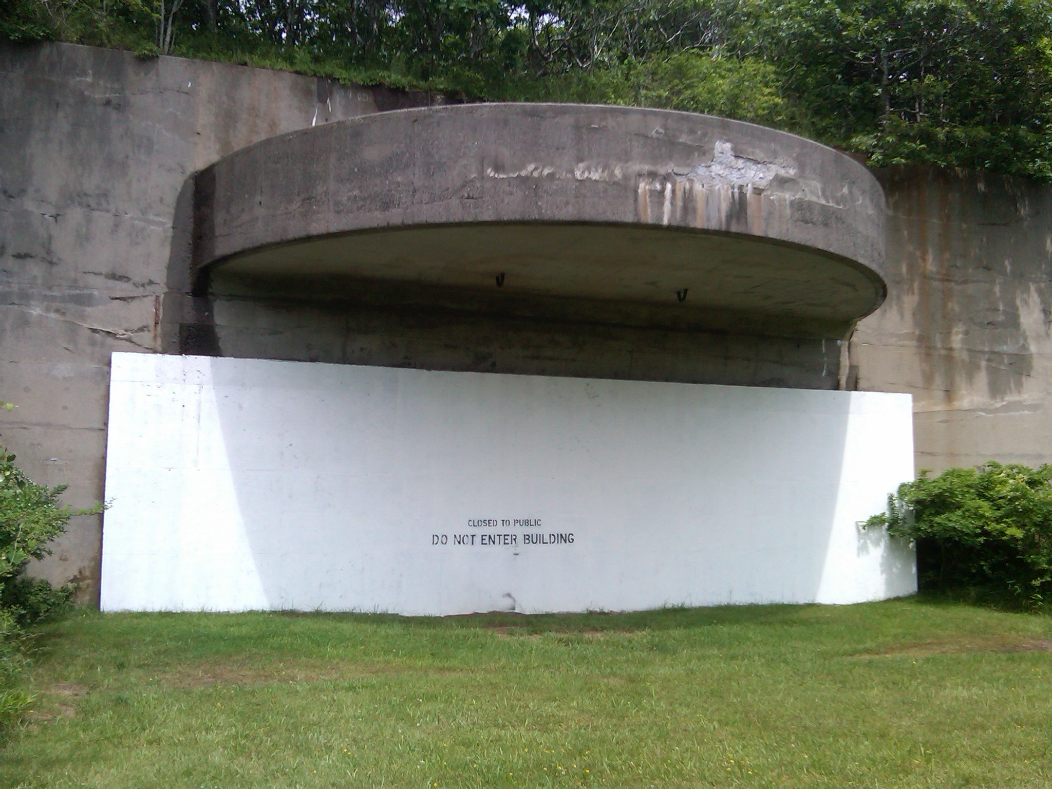 16-inch gun casemate in Camp Hero State Park